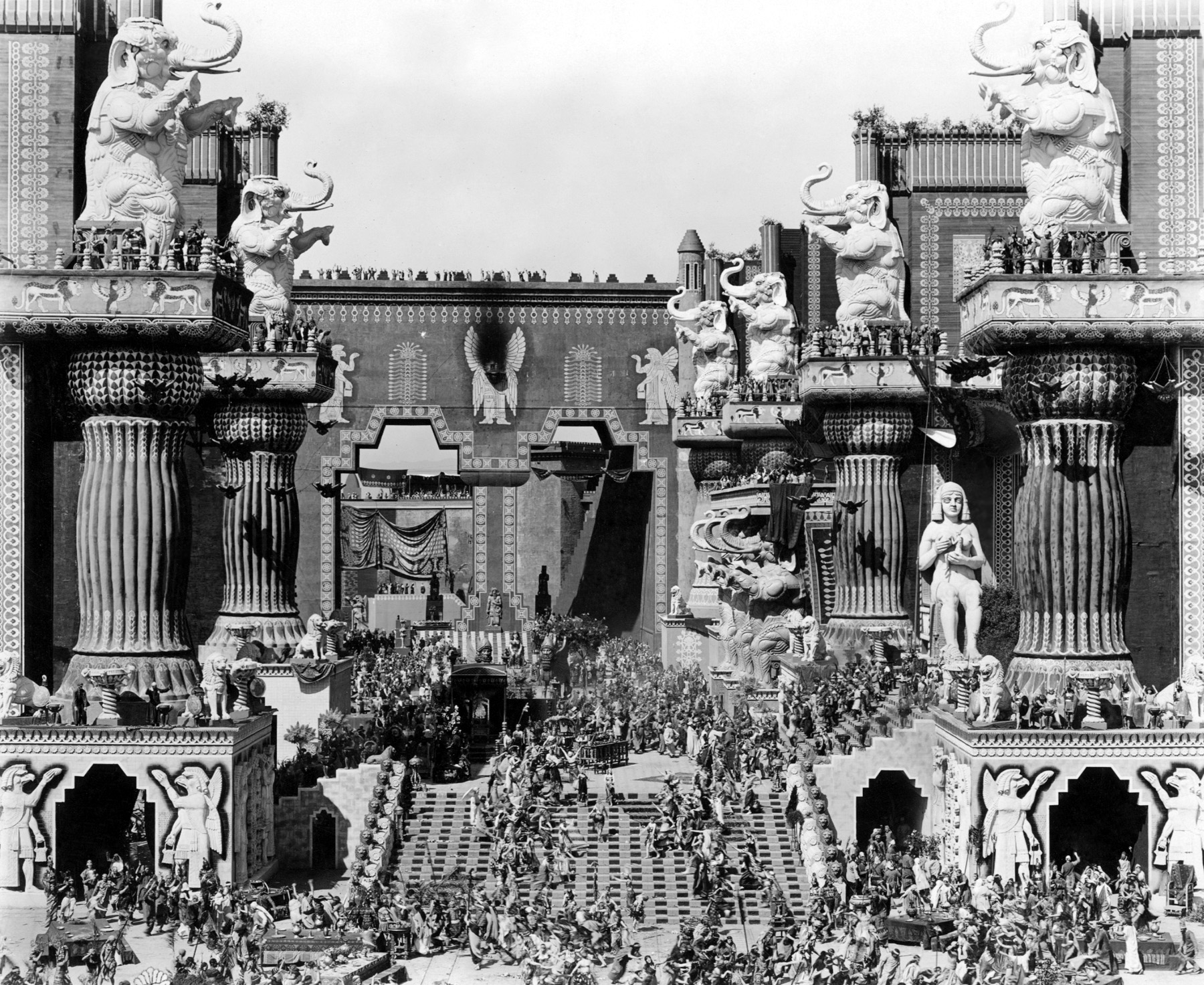 Scene still of Belshazzar's feast in the central courtyard of Babylon from D. W. Griffith's 1916 silent film Intolerance.